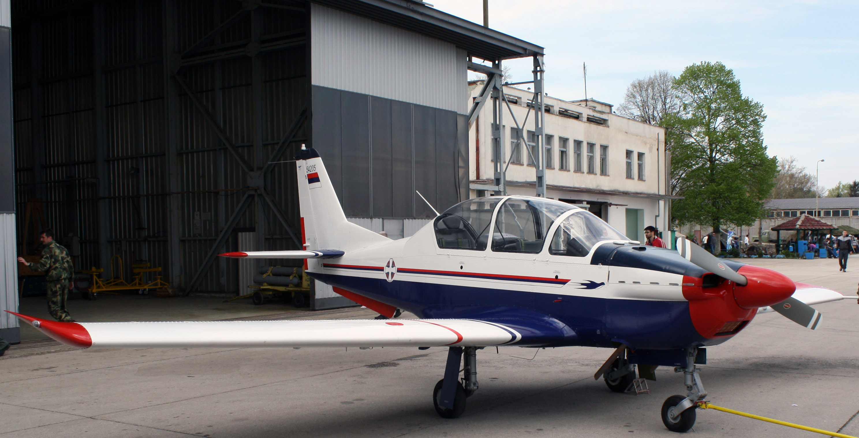 Lasta trainer aircraft No.54205 of 252. Training Squadron, 204th Air Brigade of Serbian Air Force on display, being towed to the hangar at the end of the Batajnica airbase during the Batajnica 2012 open day.